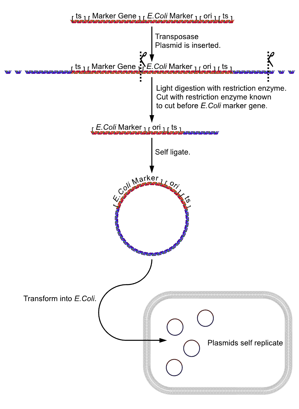 By Richard Wheeler (Zephyris) 2005; Analysis of DNA flanking a known insert by plasmid rescue (specifically with p elements).